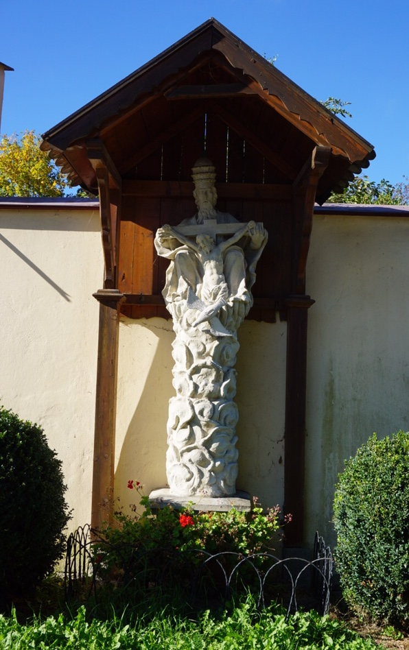 Römerbrücke Dreifaltigkeit